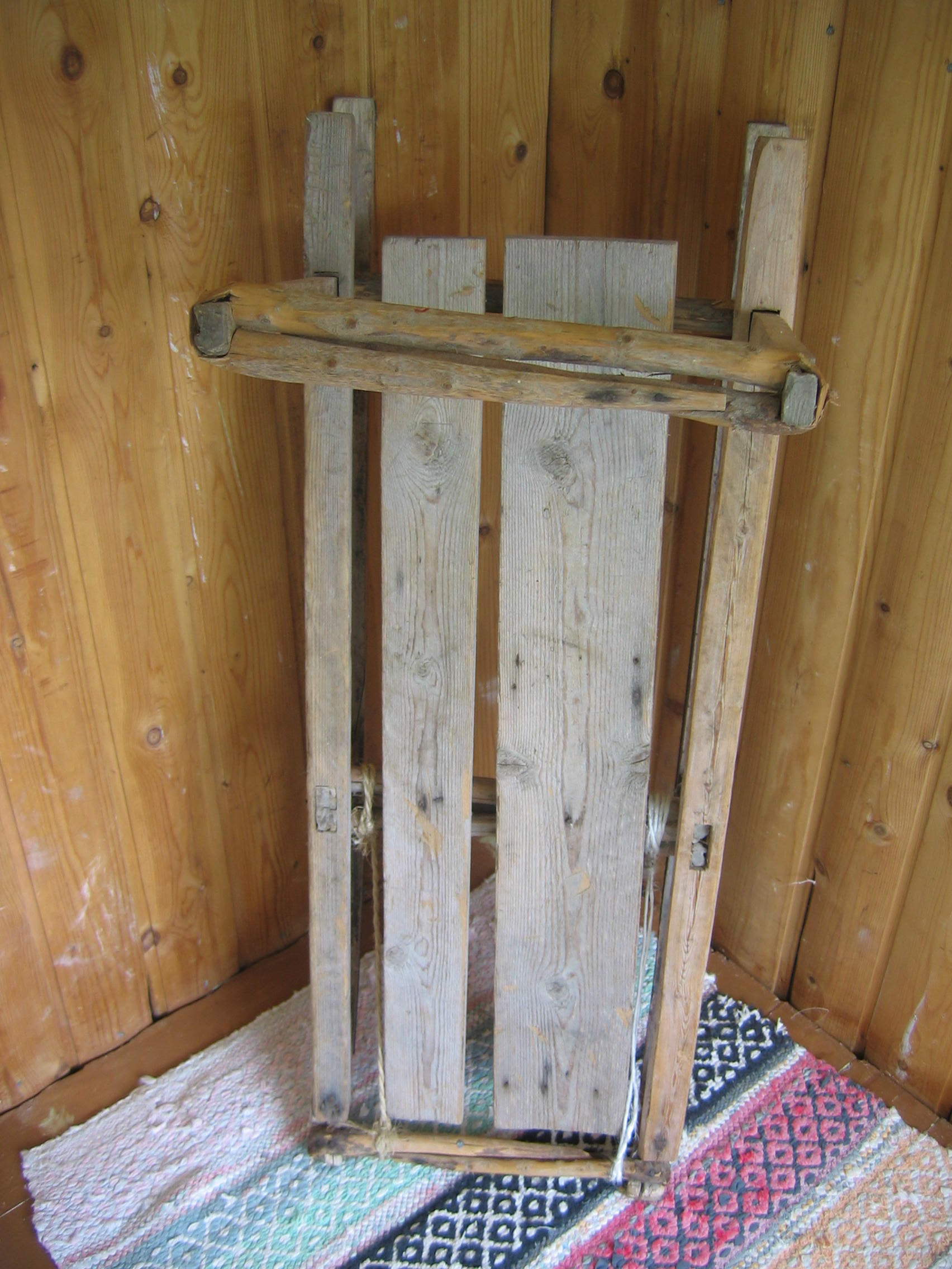 An old Finnish sled made out of wood.